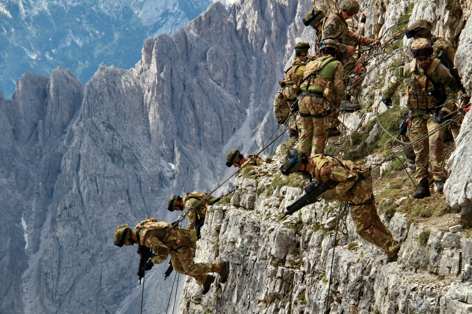 Italian Army Alpini mountain troops abseiling during the exercise Lavaredo 2019 in the Dolomites